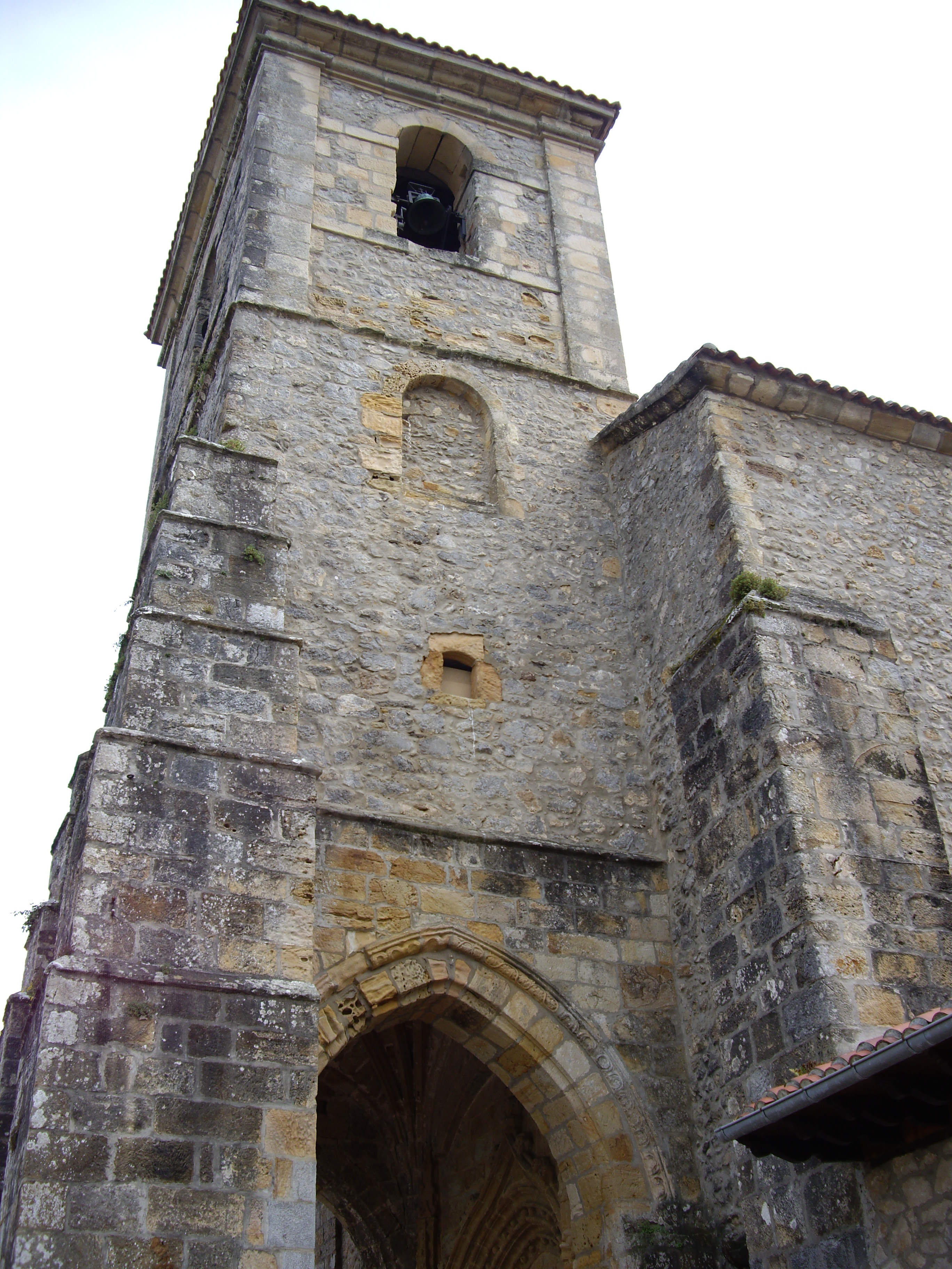 Church of the Assumption of Our Lady in Arnuero (Cantabria, Spain). XVth-XVIth centuries. Late Gothic architecture.